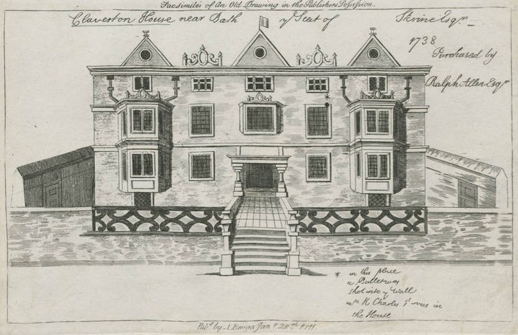 Copy of an old drawing of Claverton Manor, Somerset, England, published by Alexander Beugo.